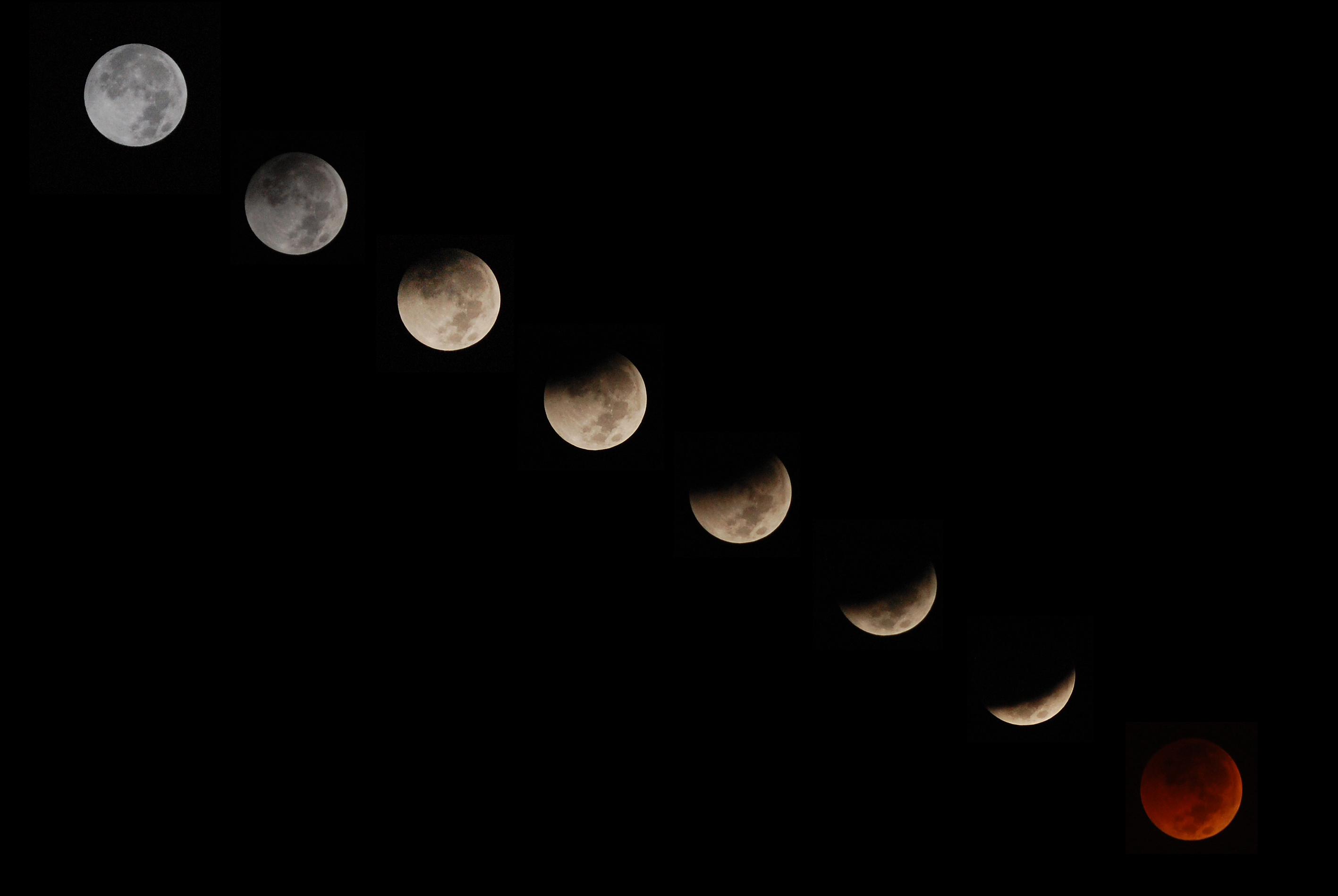 A sequence of the July 2018 lunar eclipse seen from Davao City.